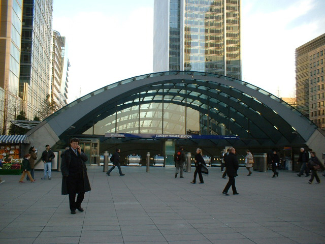 canary wharf tube station taken by a brady 27/11/03